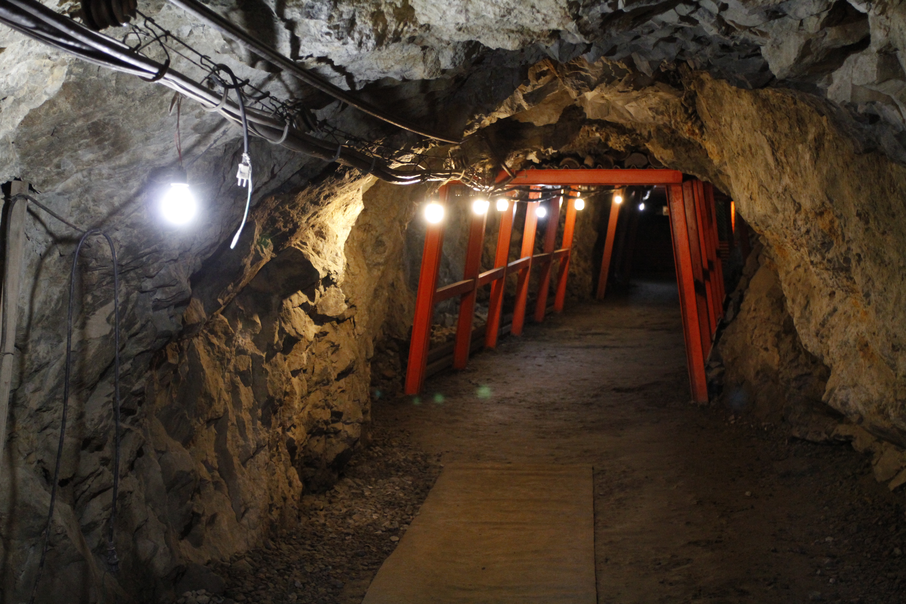 Matsushiro Underground Imperial Headquarters,Zouzan Underground Shelter